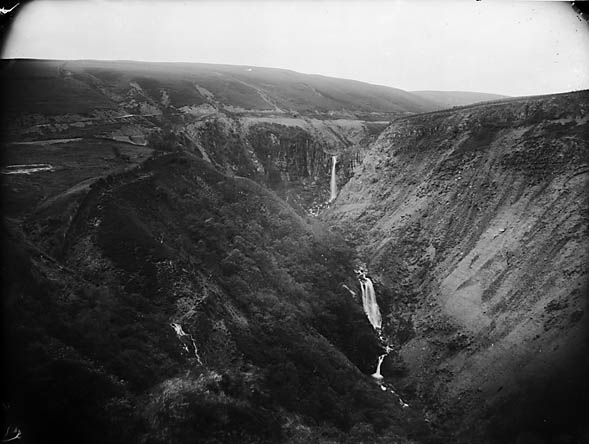 1 negative : glass, dry plate, b&w ; 16.5 x 21.5 cm.